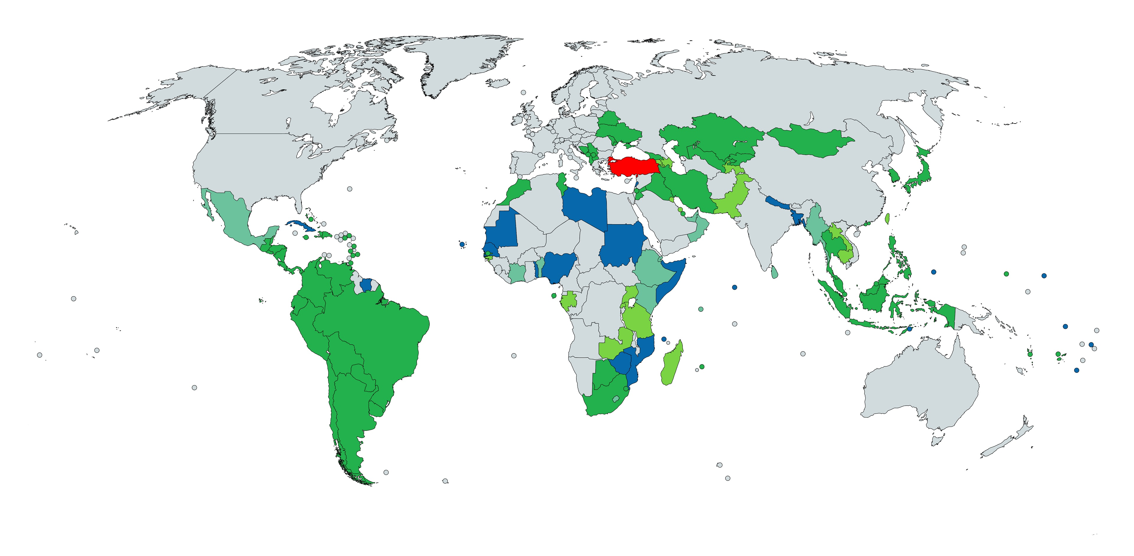 Visa requirements for Turkish citizens